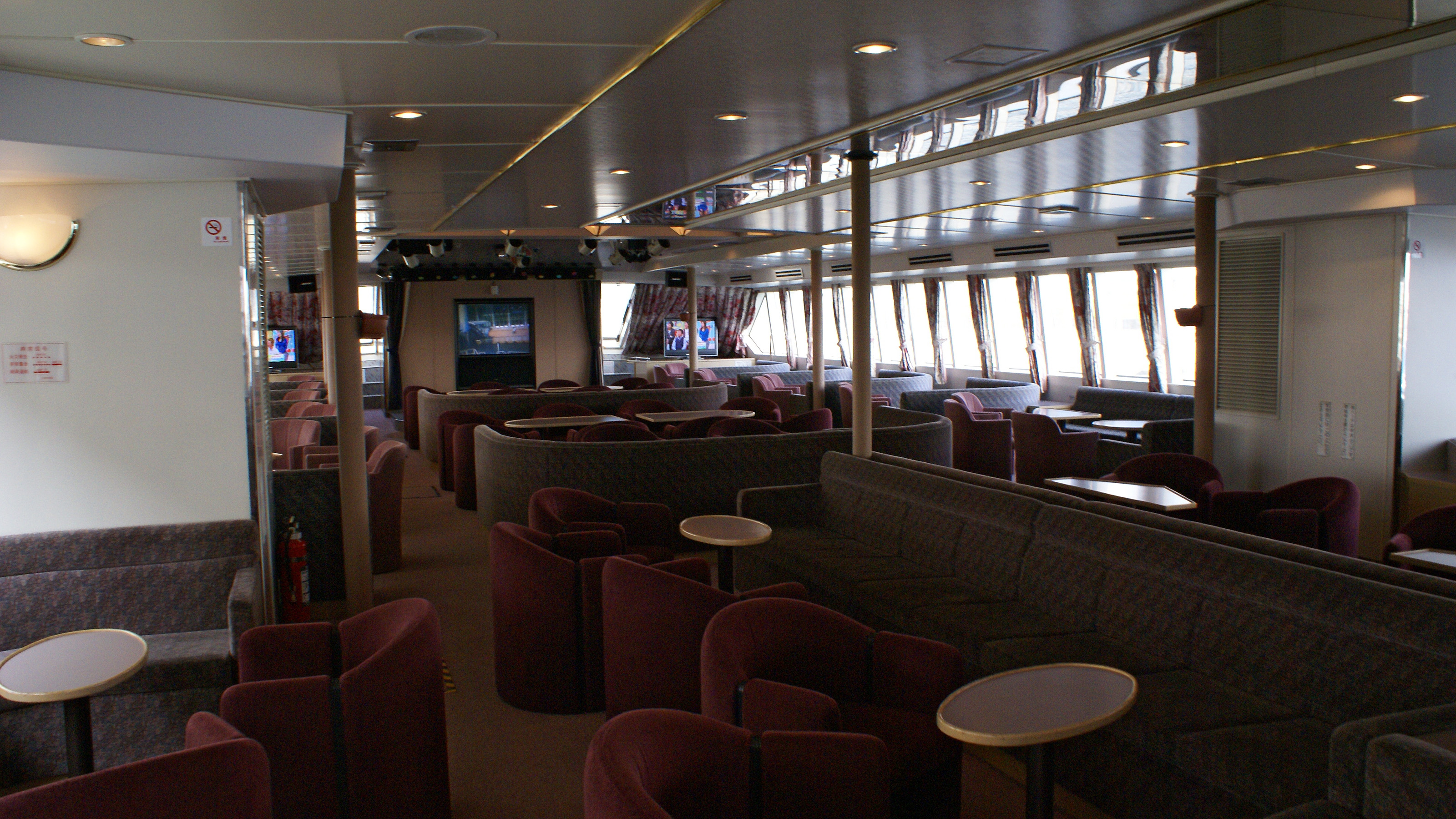 "La Belle Mer" who anchors at "Nakatottei Central Terminal" of the Kobe harbor (Kobe, Hyogo, Japan)